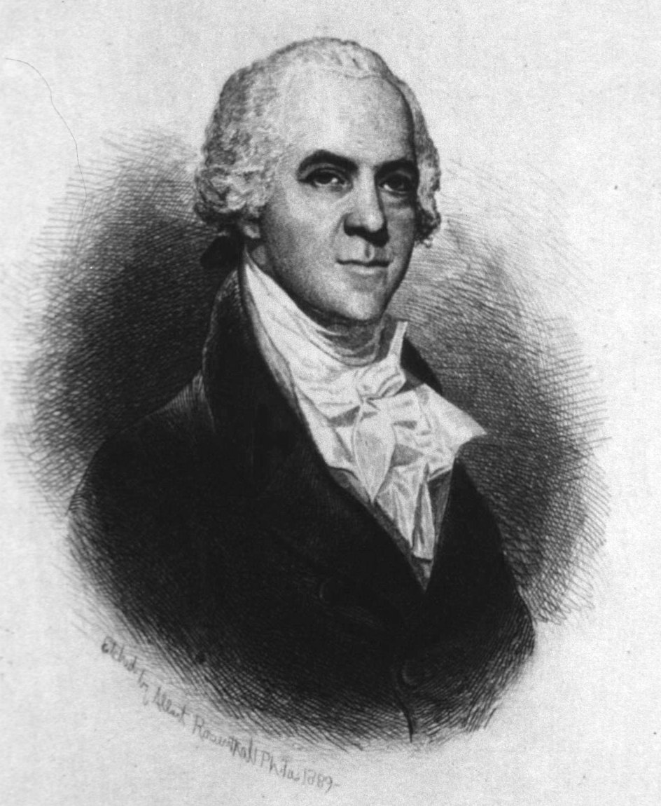 George Logan, American physician, also a U.S. Senator representing Pennsylvania